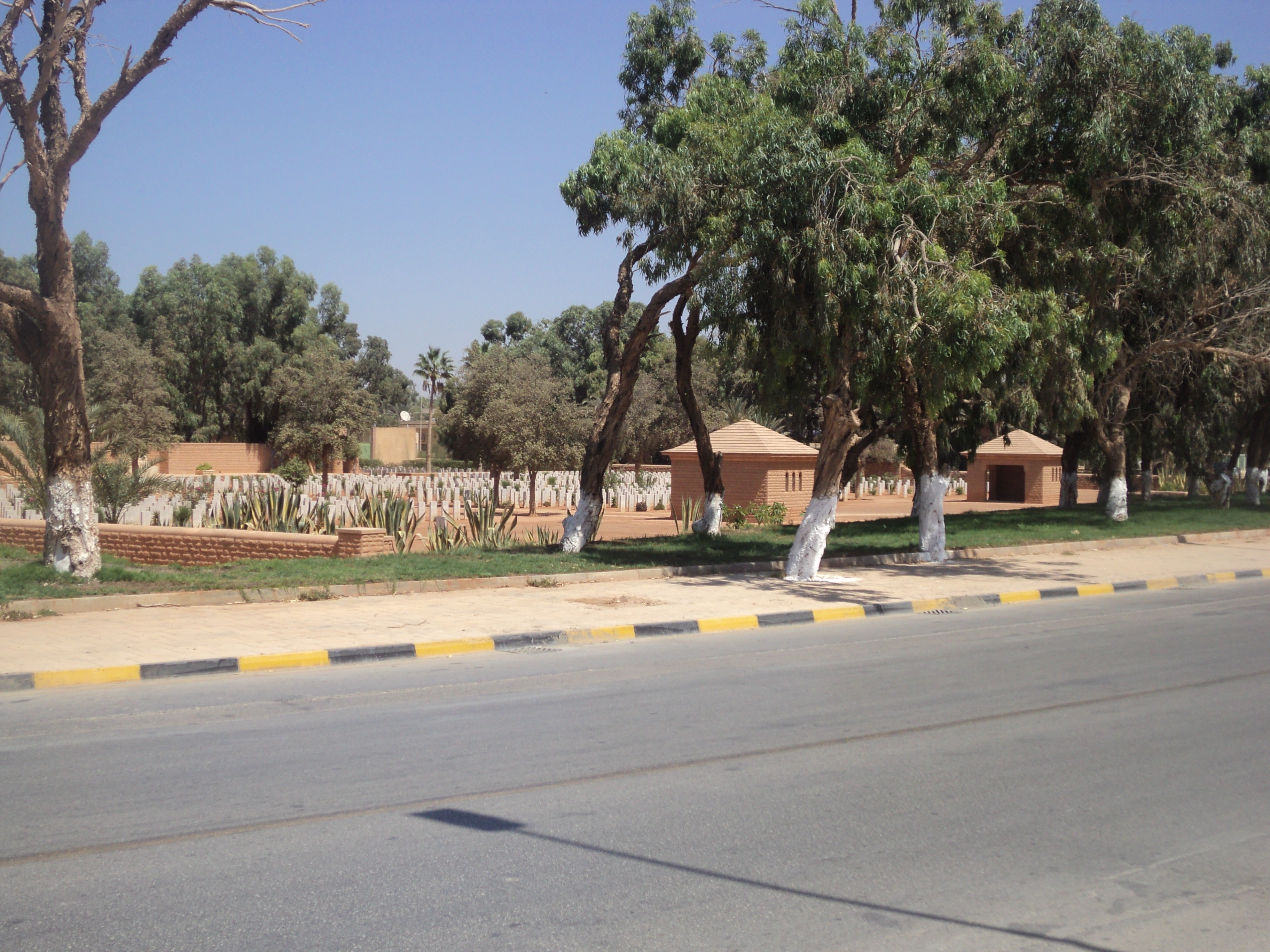 Benghazi commonwealth cemetery 1939-45.